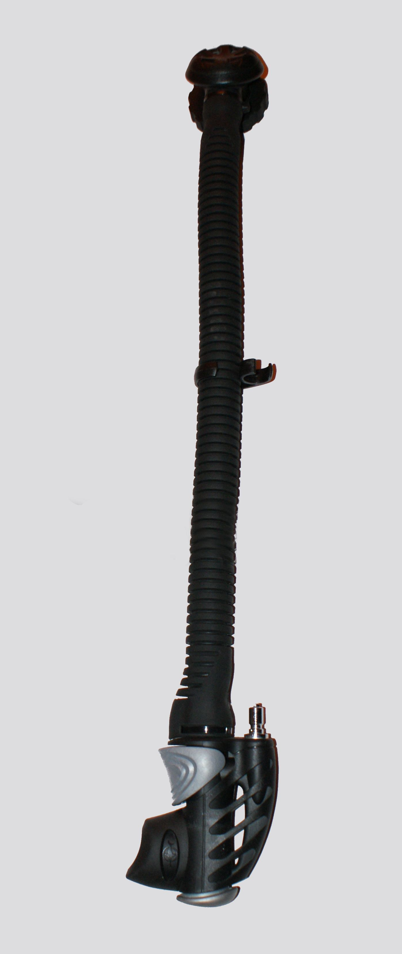 Buoyancy compensator inflation assembly